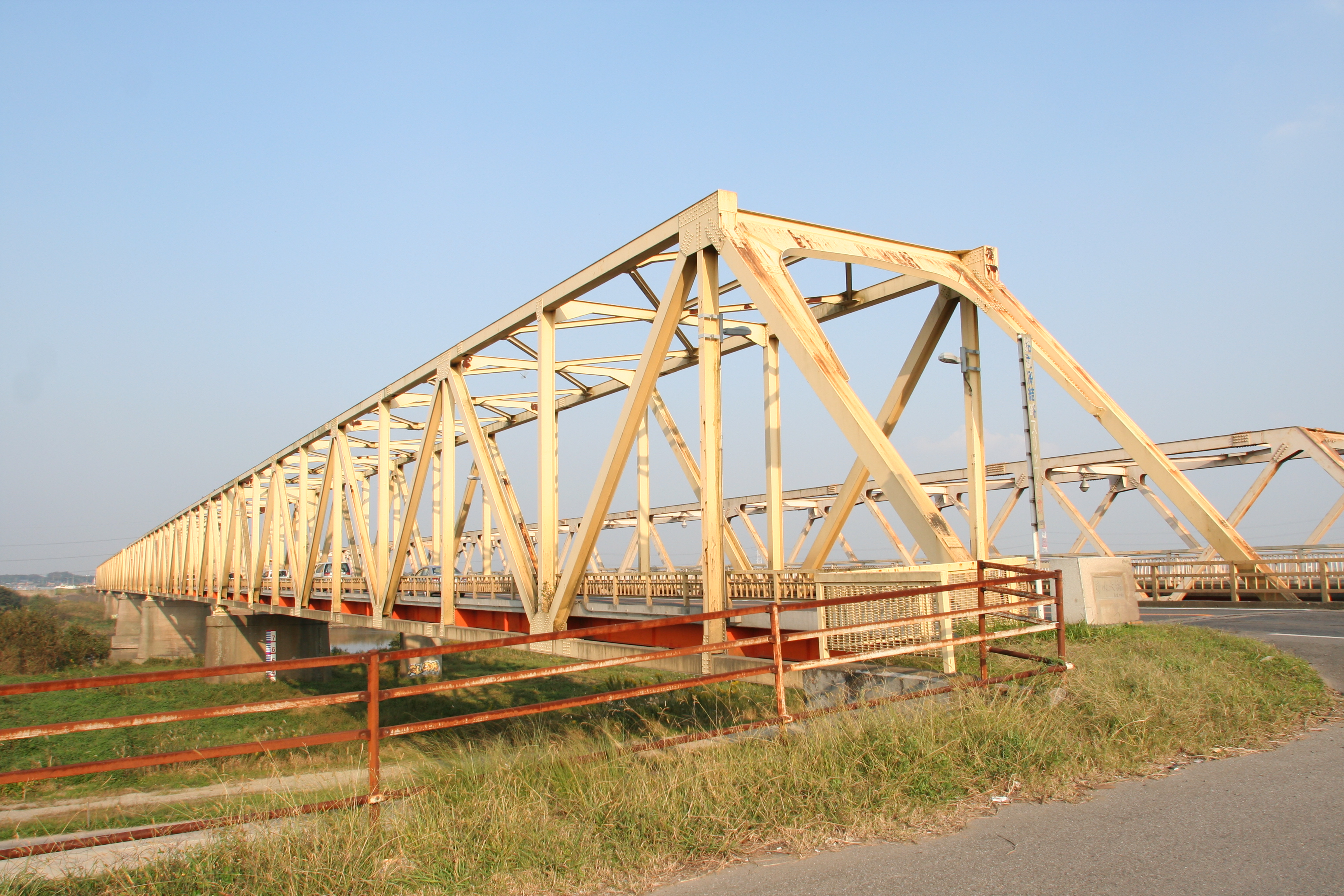 Mefuki Ohashi (Mefuki Bridge) over the Tone River